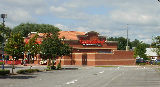 Frankie and Benny's Newport Frankie and Benny's New York Italian Restaurant and Bar, Newport Retail Park.